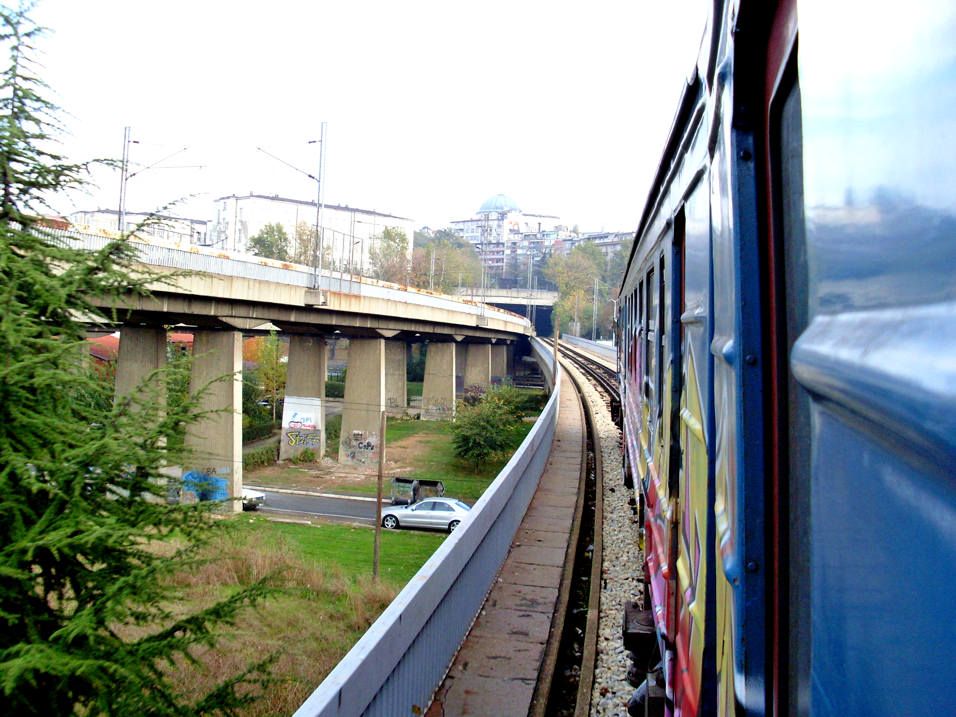 Belgrade Beovoz commuter train entering tunnel below Vracar hill